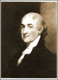 Caleb Strong